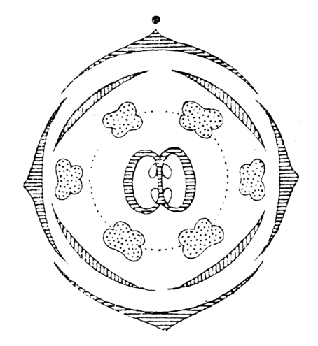 Flower diagram of Brassica